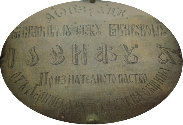 Lerin Bulgarian Municipality Present Plaque to Exarch Joseph I of Bulgaria placed in National History Museum in Sofia, Bulgaria